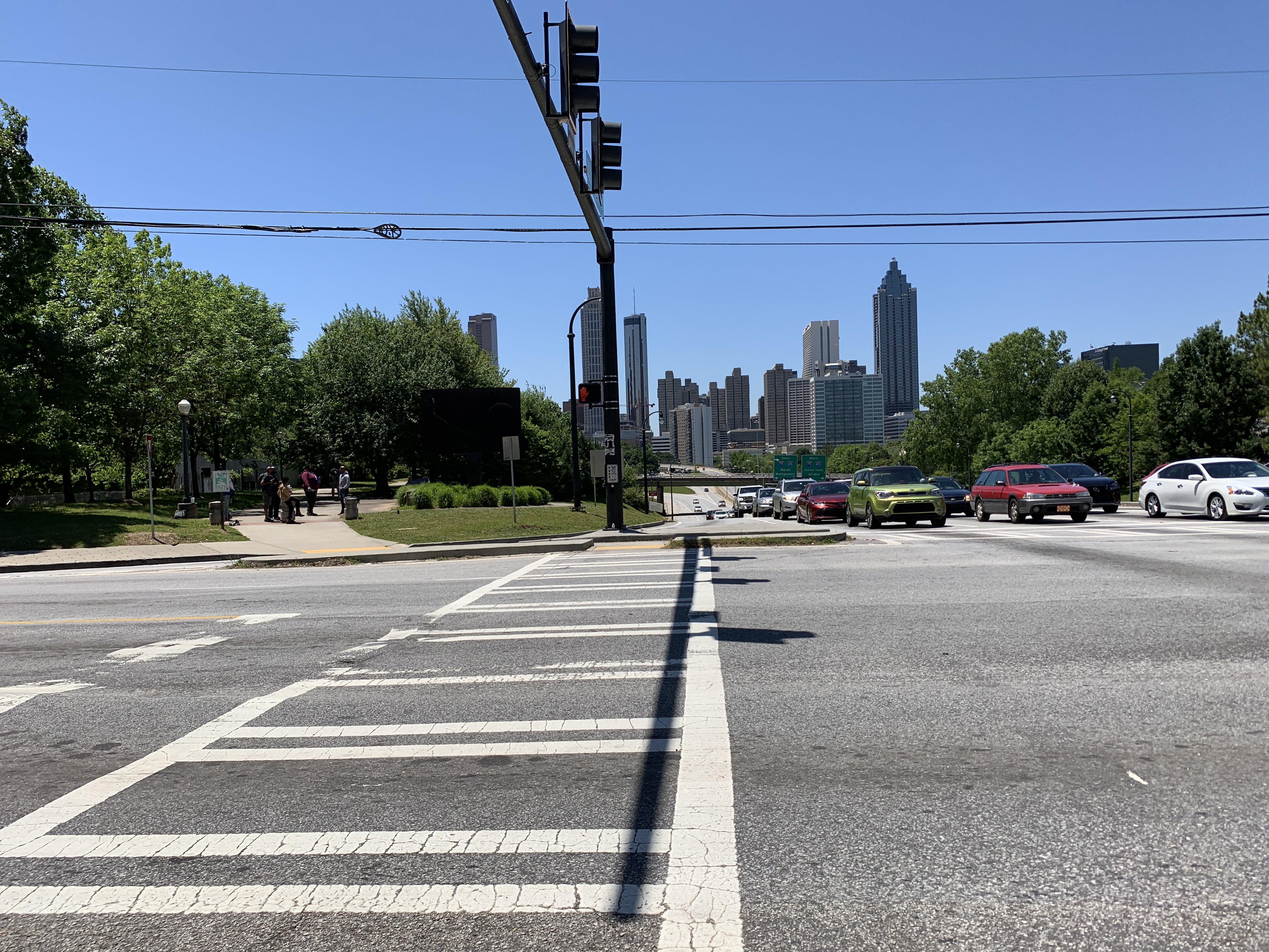 Homage to King location